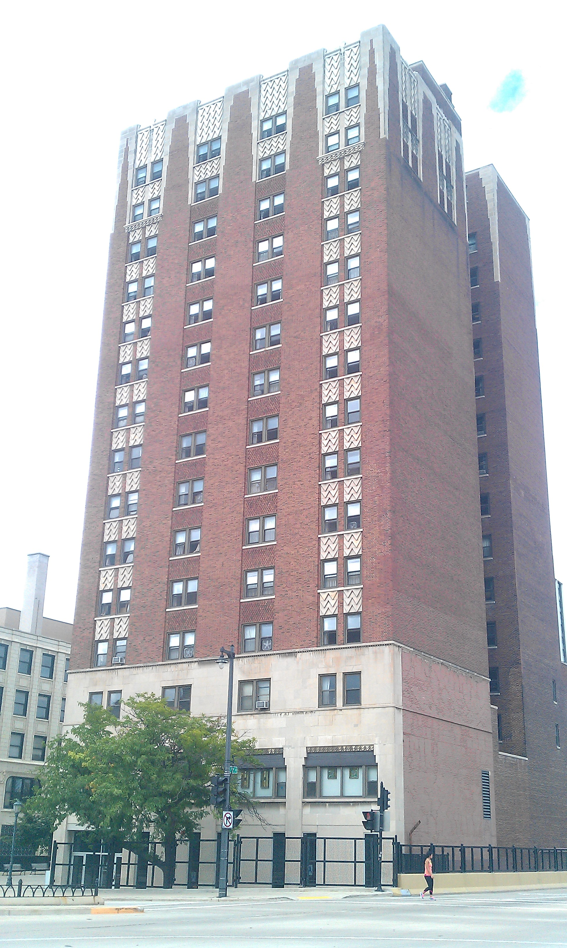 The 180 foot M. Carpenter Tower on Marquette's campus